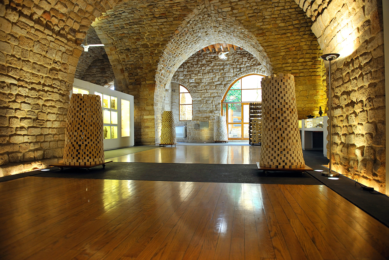 Perspective showing the interior of the Soap Museum